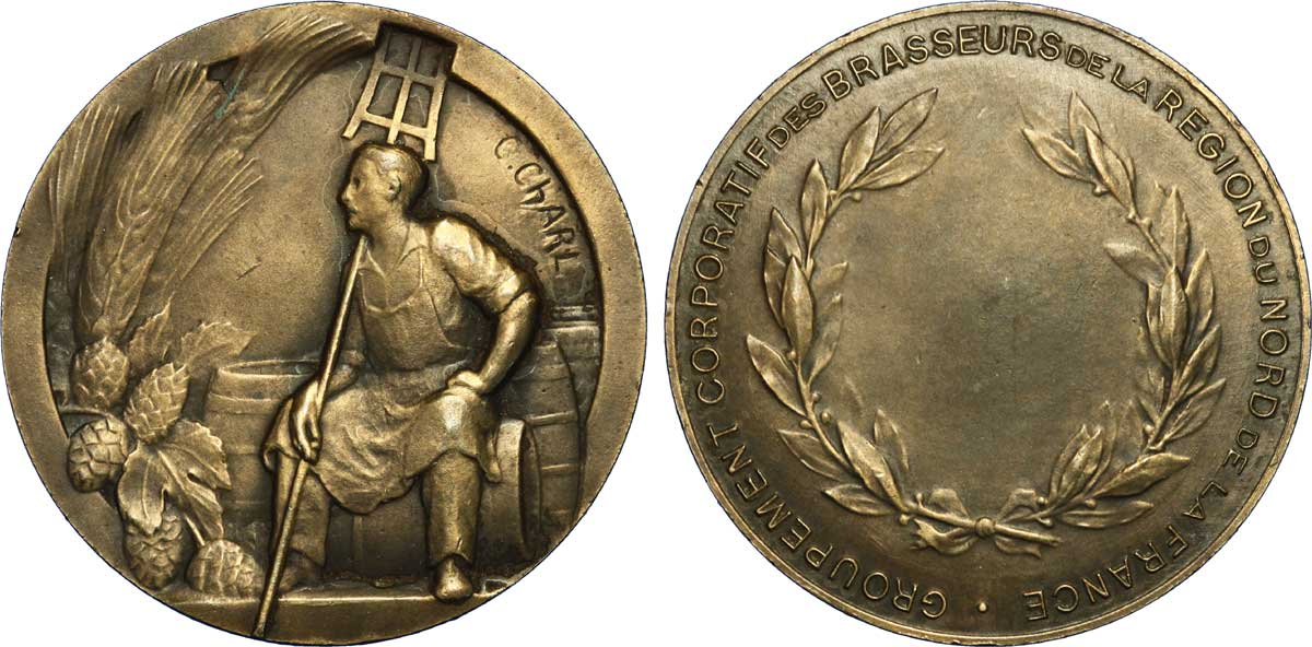 Jeton de la corporation des brasseurs du Nord